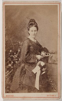 Untitled